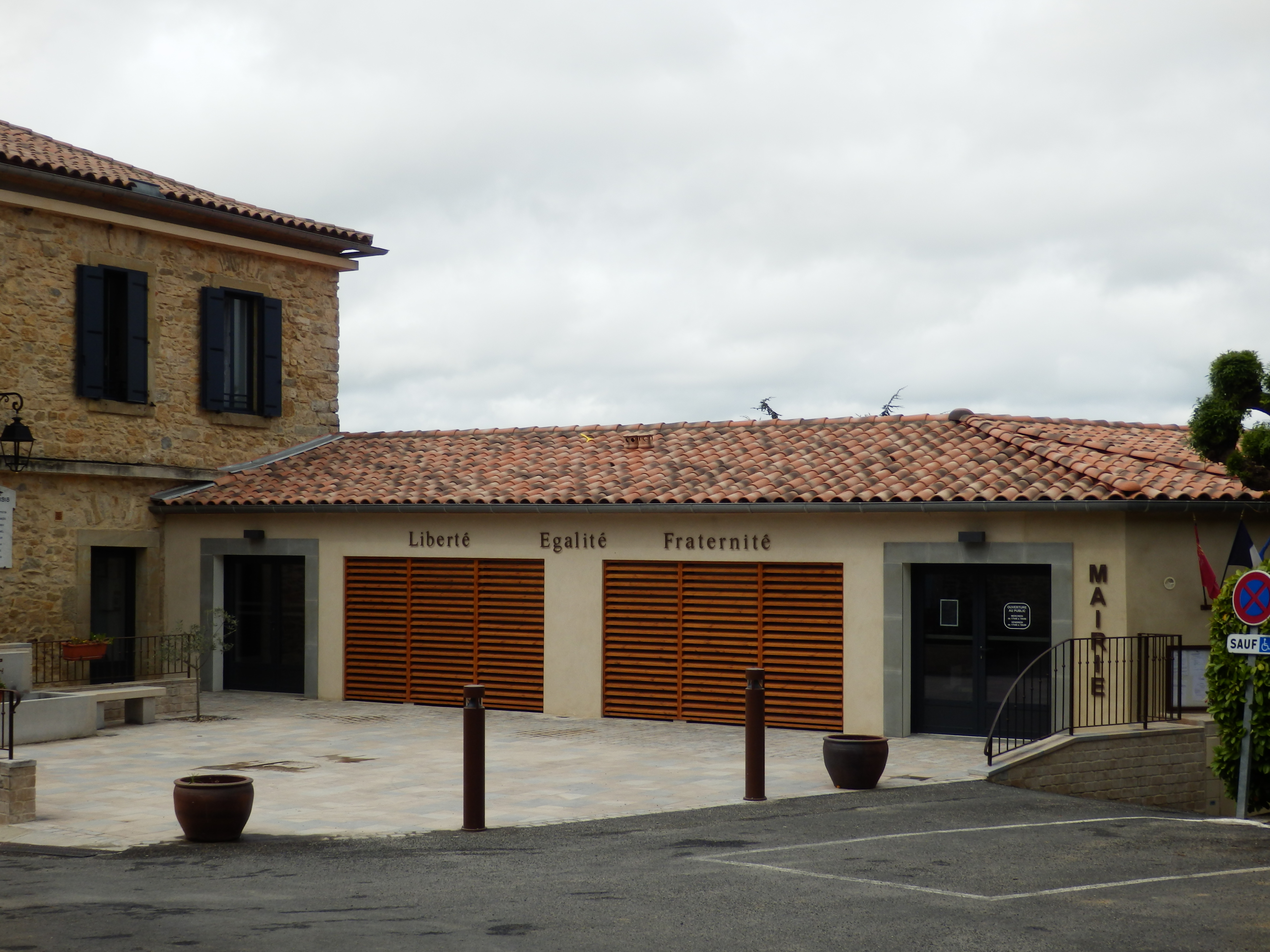 Town hall of Roquetaillade, Aude, France